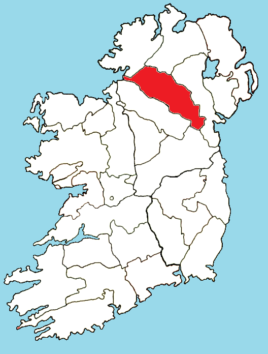 Diocese map